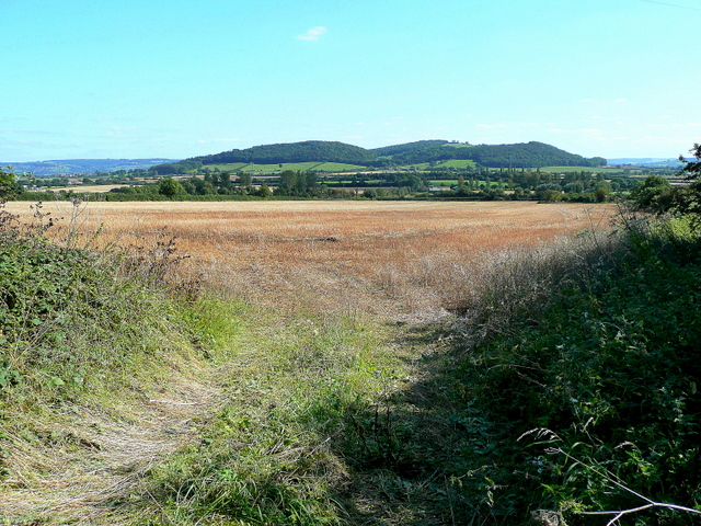 View to Alderton Hill An outlier of the Cotswolds viewed from Grafton on the lower slopes of Bredon Hill.